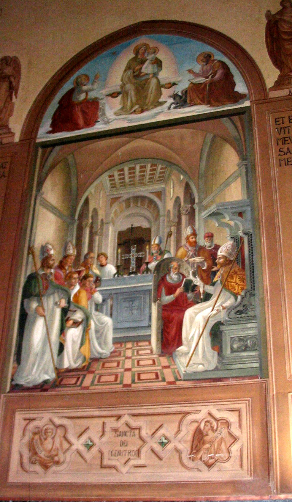 Ein Kerem, Church of Visitation